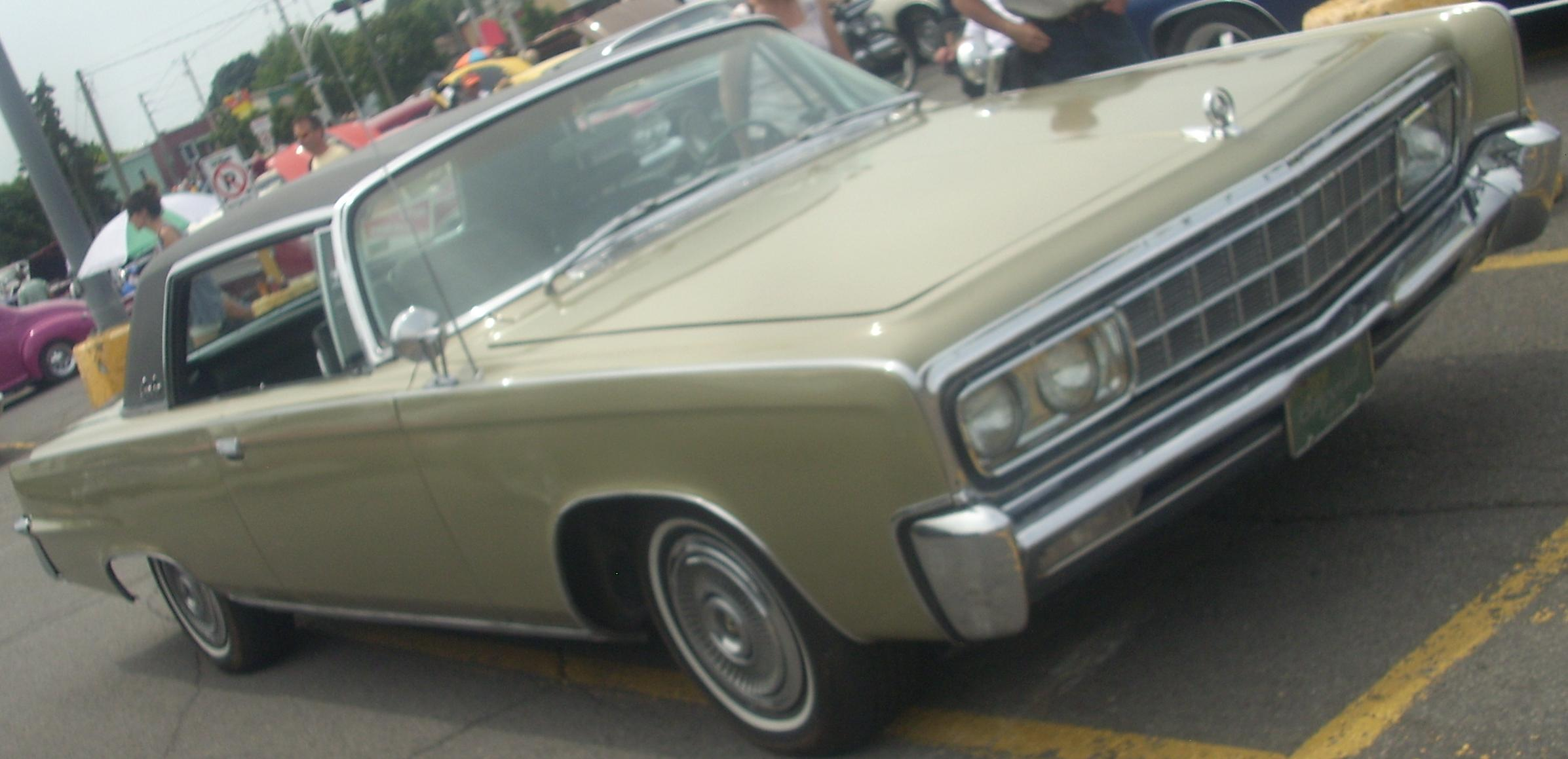 1966 Imperial Crown photographed in Salaberry De Valleyfield, Quebec, Canada at Rassemblement Mopar Valleyfield 2010.